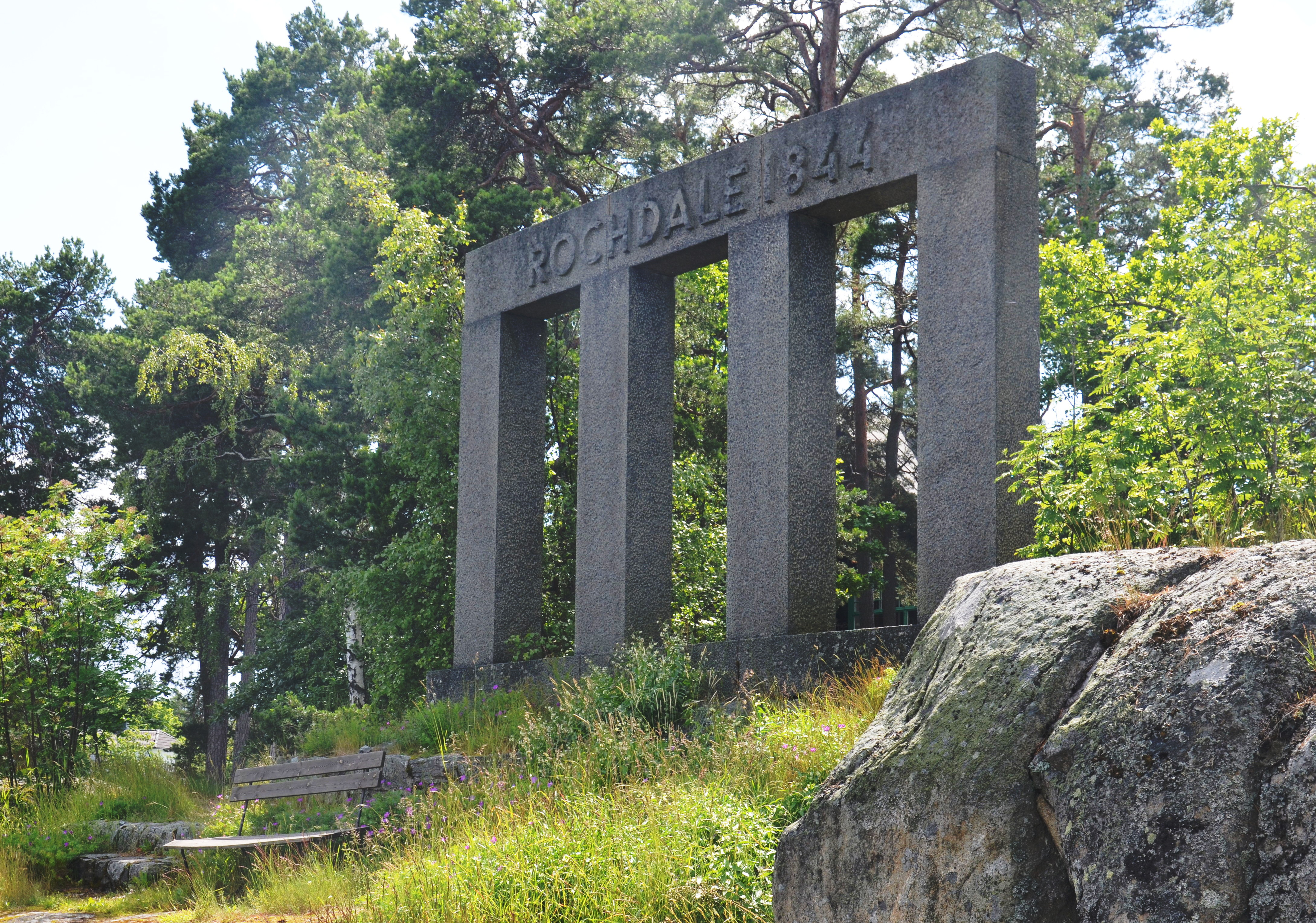 Rochdalemonumentet, Sjöudden, Saltsjöbaden, granite, 1944, av Nils SJögren